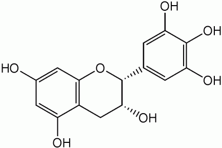 Description: Chemical structure of epigallocatechin Author, date of creation: selfmade by Shaddack, 23 October 2005 Source: self-made Copyright: Public Domain (PD) Comments: b/w PNG; ChemWindow